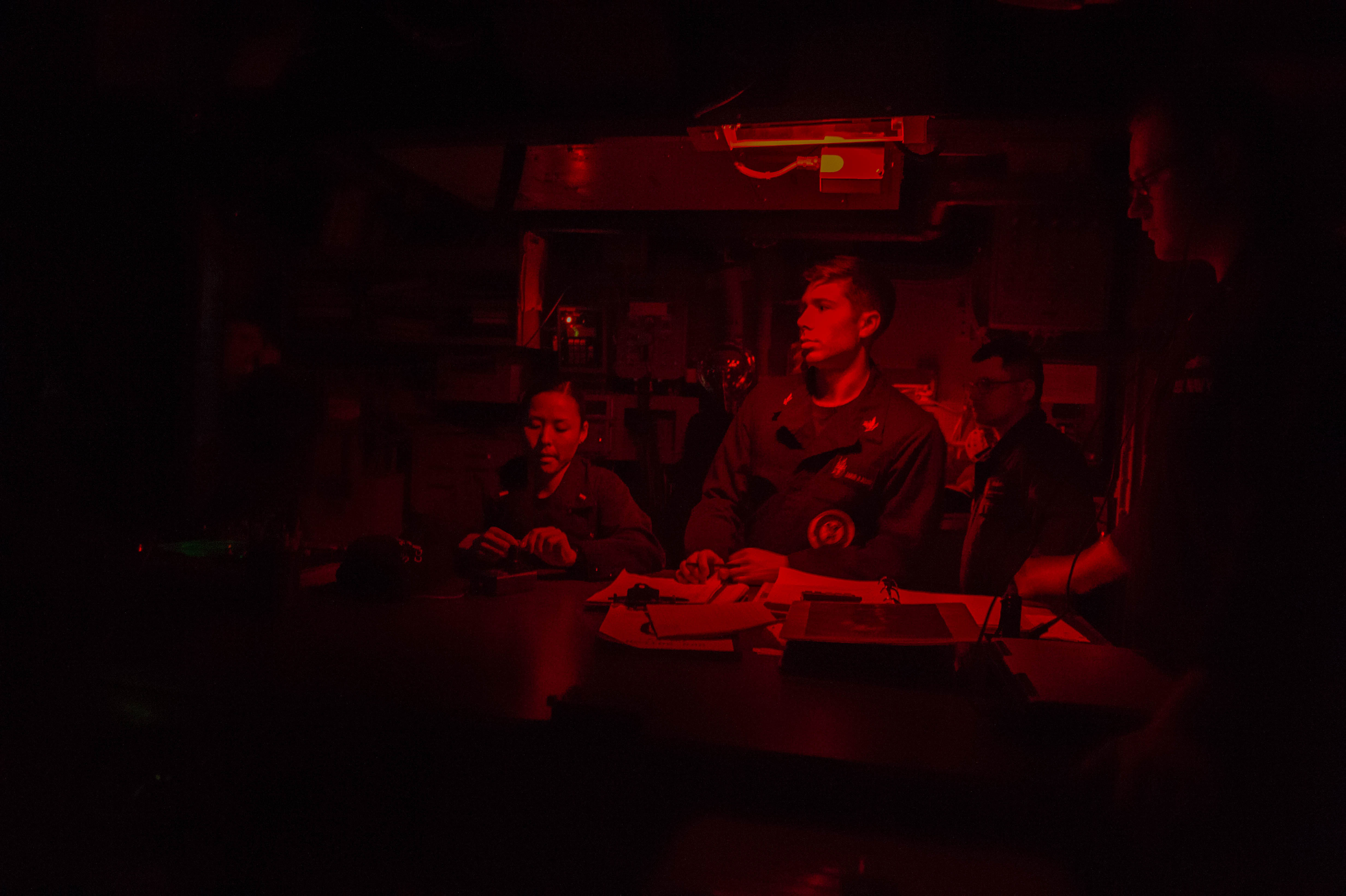 150306-N-LX437-237 WATERS TO THE EAST OF JAPAN Ticonderoga class guided-missile cruiser USS Shiloh’s navigator, Lt. j.g. Crystal Gonzalez, conducts training on the ship’s bridge with Quartermaster Third Class Samuel Wilson, Boatswain’s Mate Seaman Jonny Mejia-Dominguez and Quartermaster Third Class Weston Warr. Shiloh is on patrol in the 7th Fleet area of operation supporting security and stability in the Indo-Asia-Pacific region.